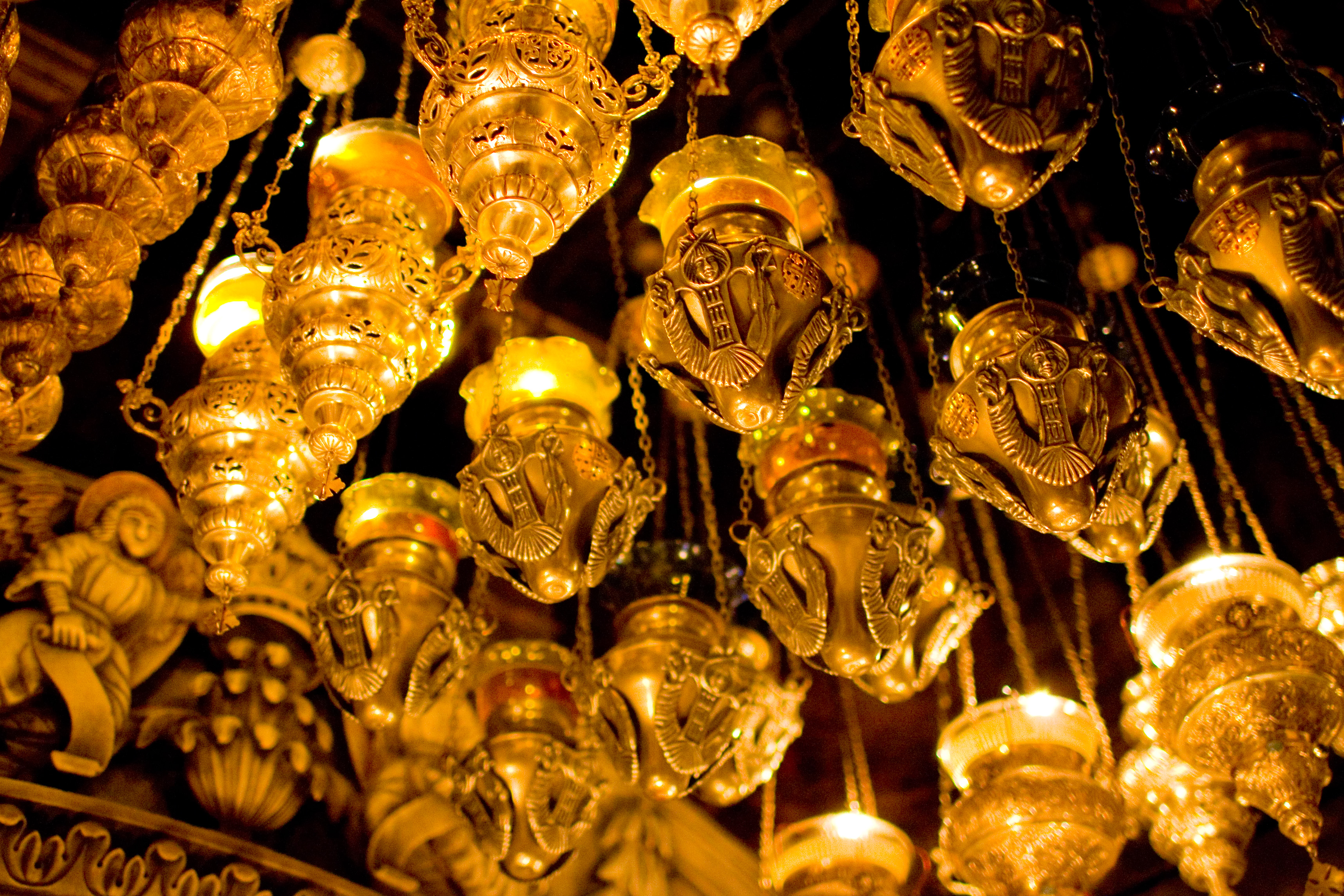 Golden Artifacts hung in the tiny confines of the Tomb of Jesus at the Church of the Holy Sepulchre.